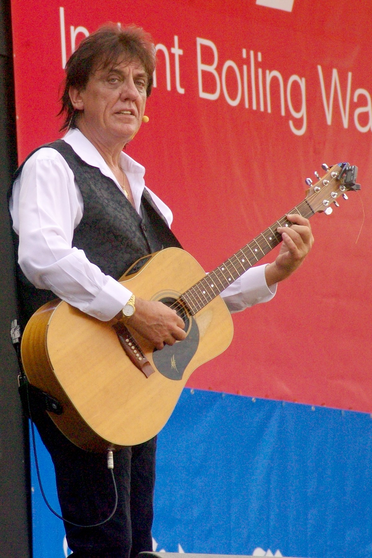 Jon English performing "Six Ribbons" at the Celebrate Australia! concert on Australia Day 2010.